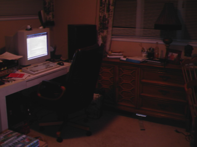 Untidy home office (mine)